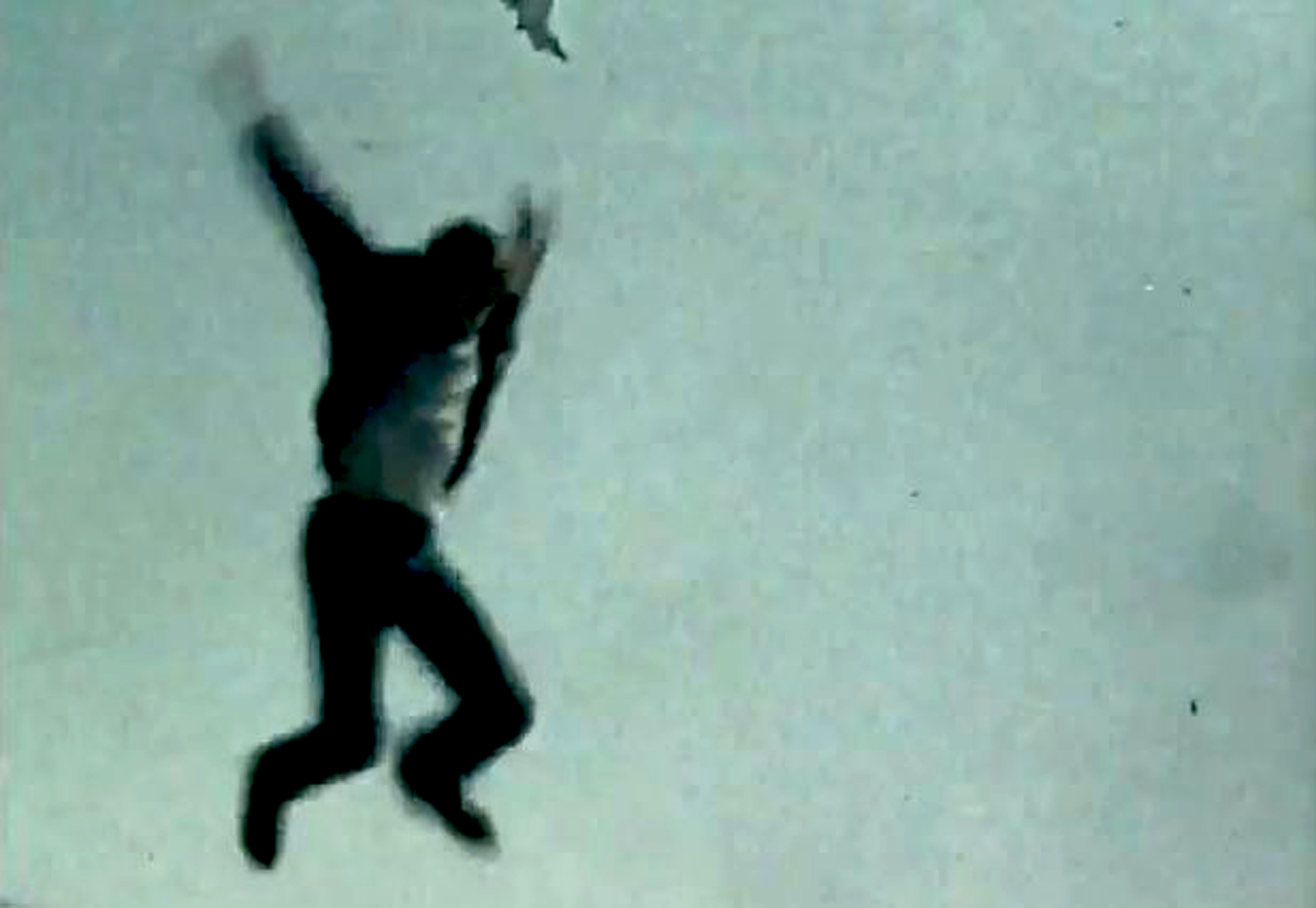 On the transience of the moment, film still 1982